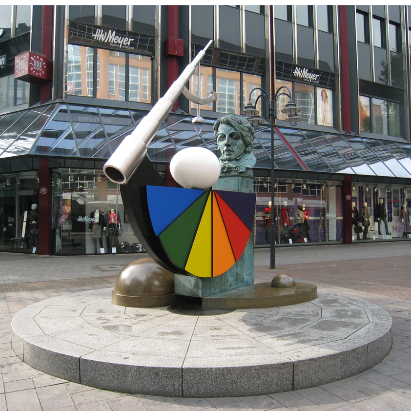 Bessel-Ei, statue in Bremen, Germany for Friedrich Wilhelm Bessel (1784–1846, astronomer and mathematician), erected 1990.